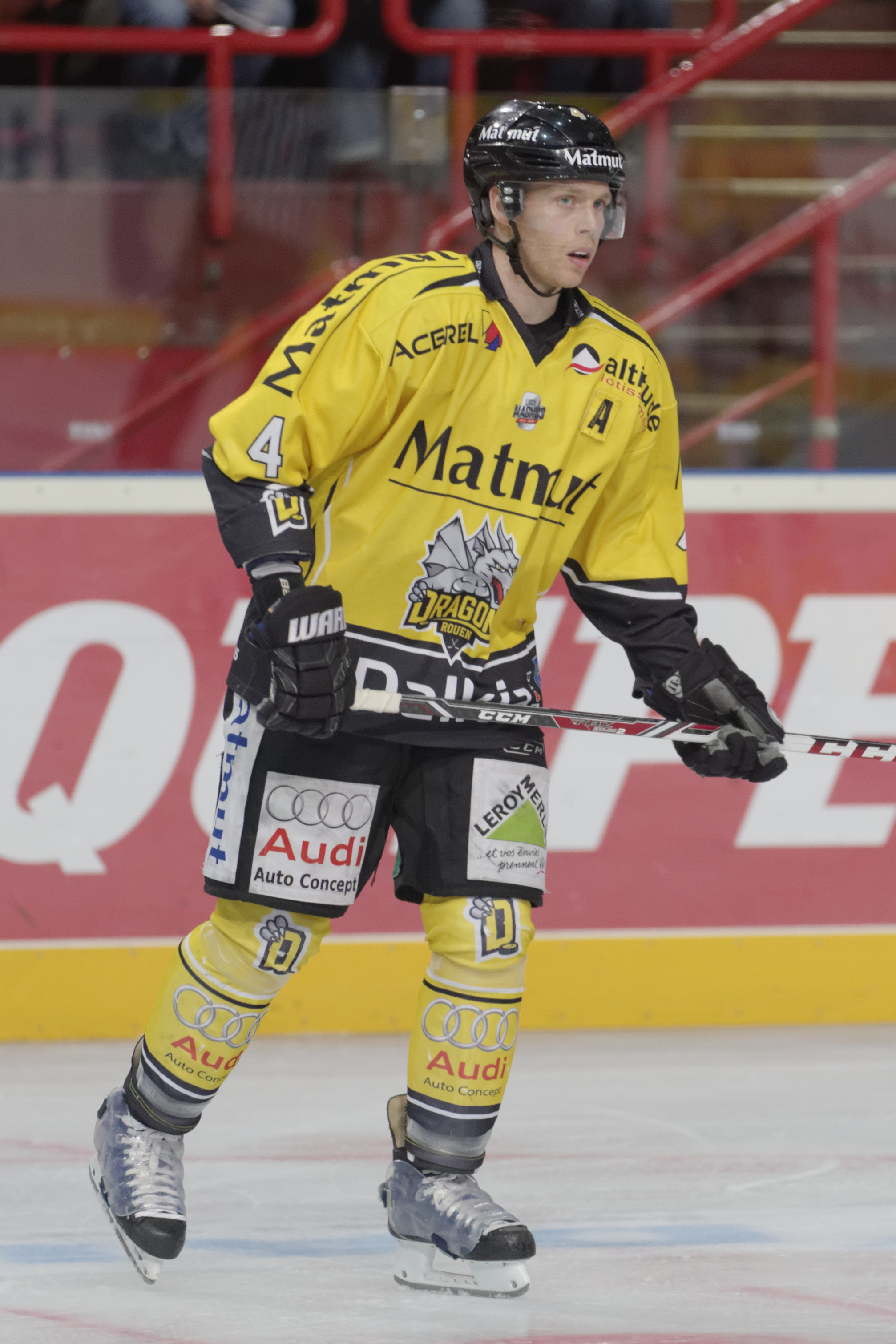 Final of the Ice Hockey French Cup 2014.